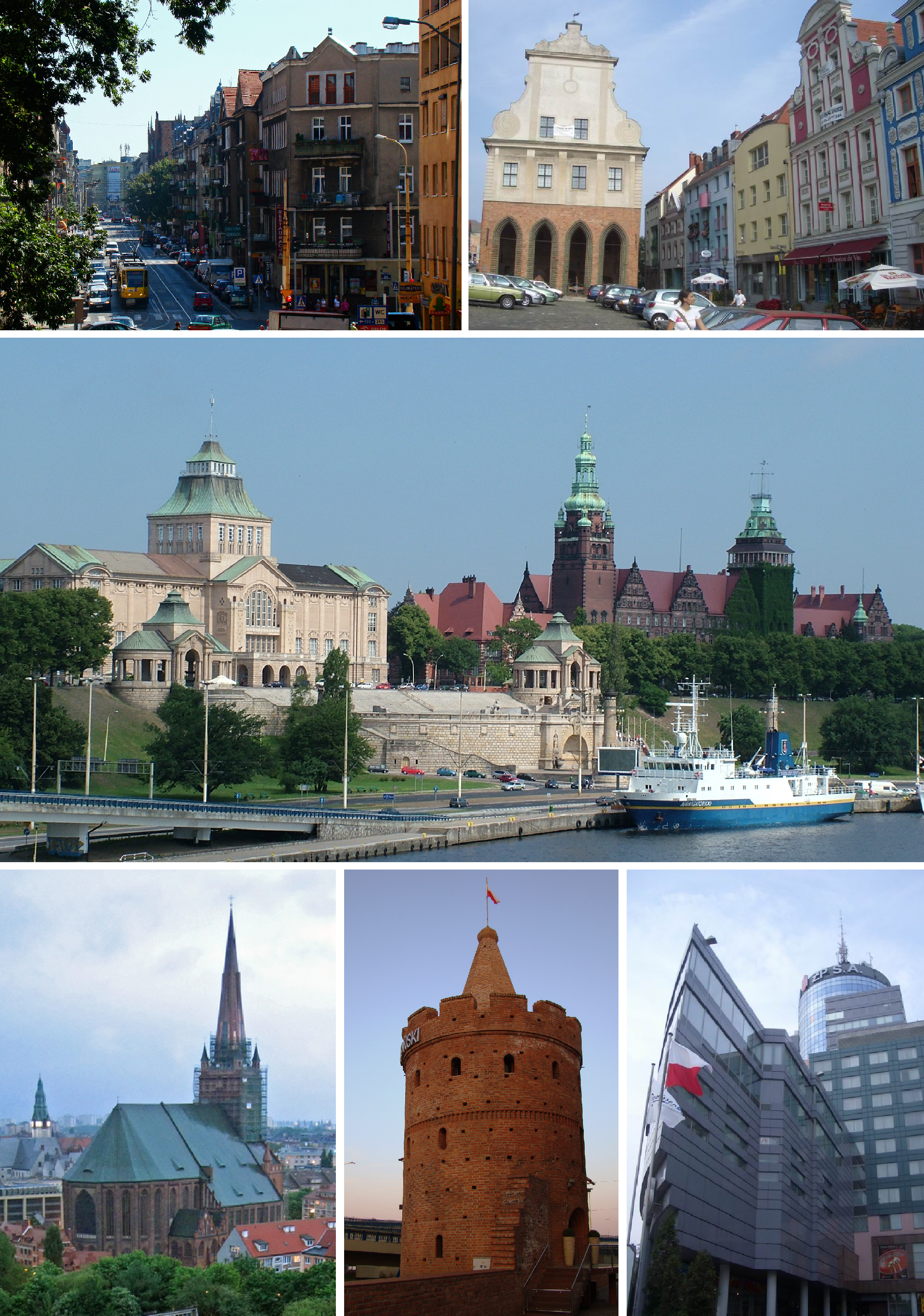 A collage of views of Szczecin, Poland